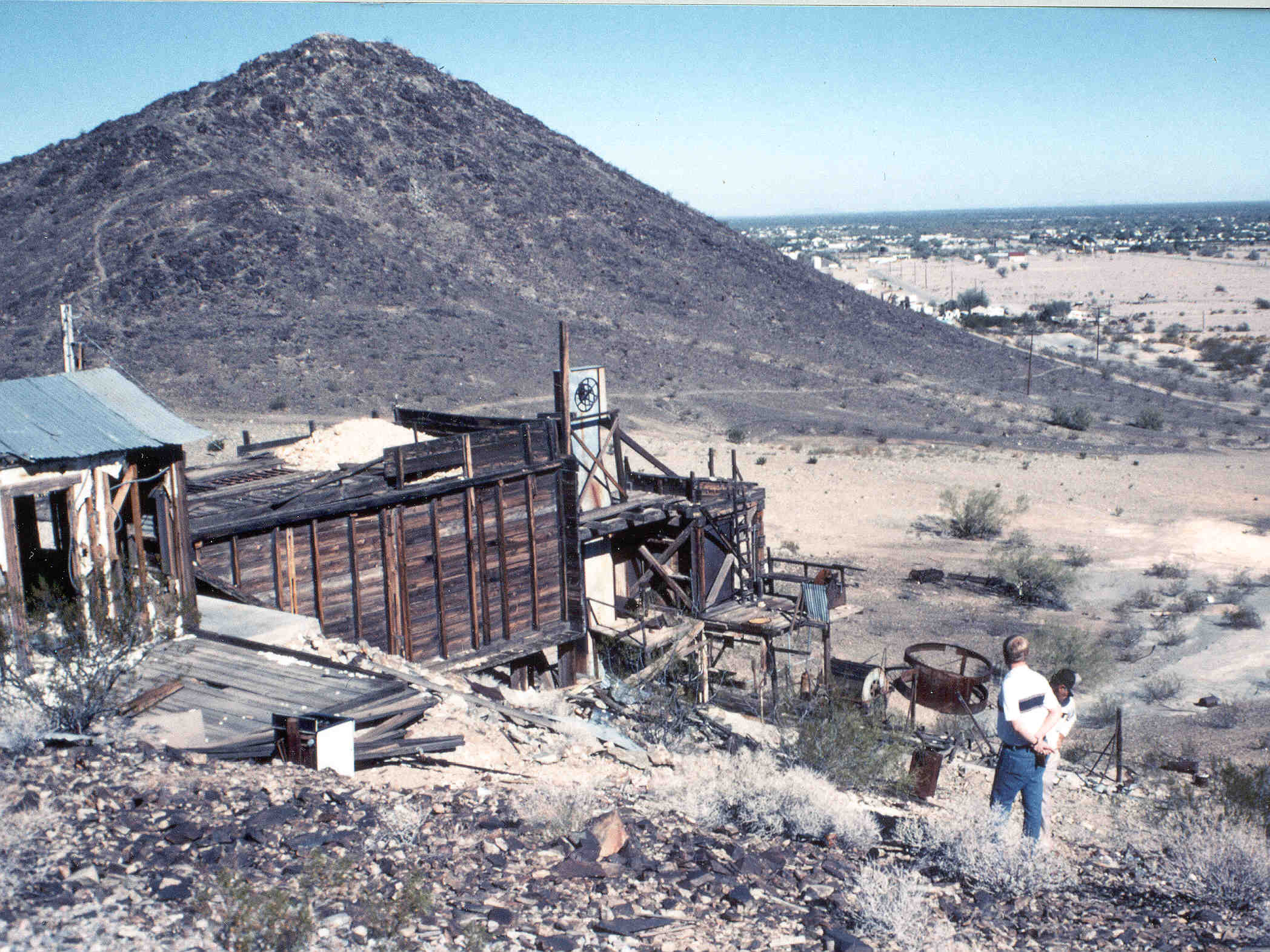 Description : An old abandoned mine in the Quartzsite area. Filename : yfooldmine.jpg